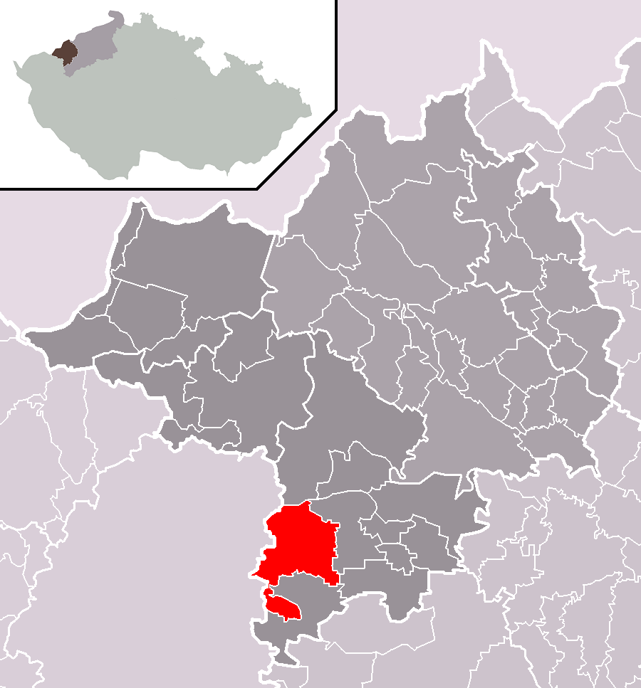 Location of Radonice municipality within Chomutov District and administrative area of Kadaň as a Municipality with Extended Competence.